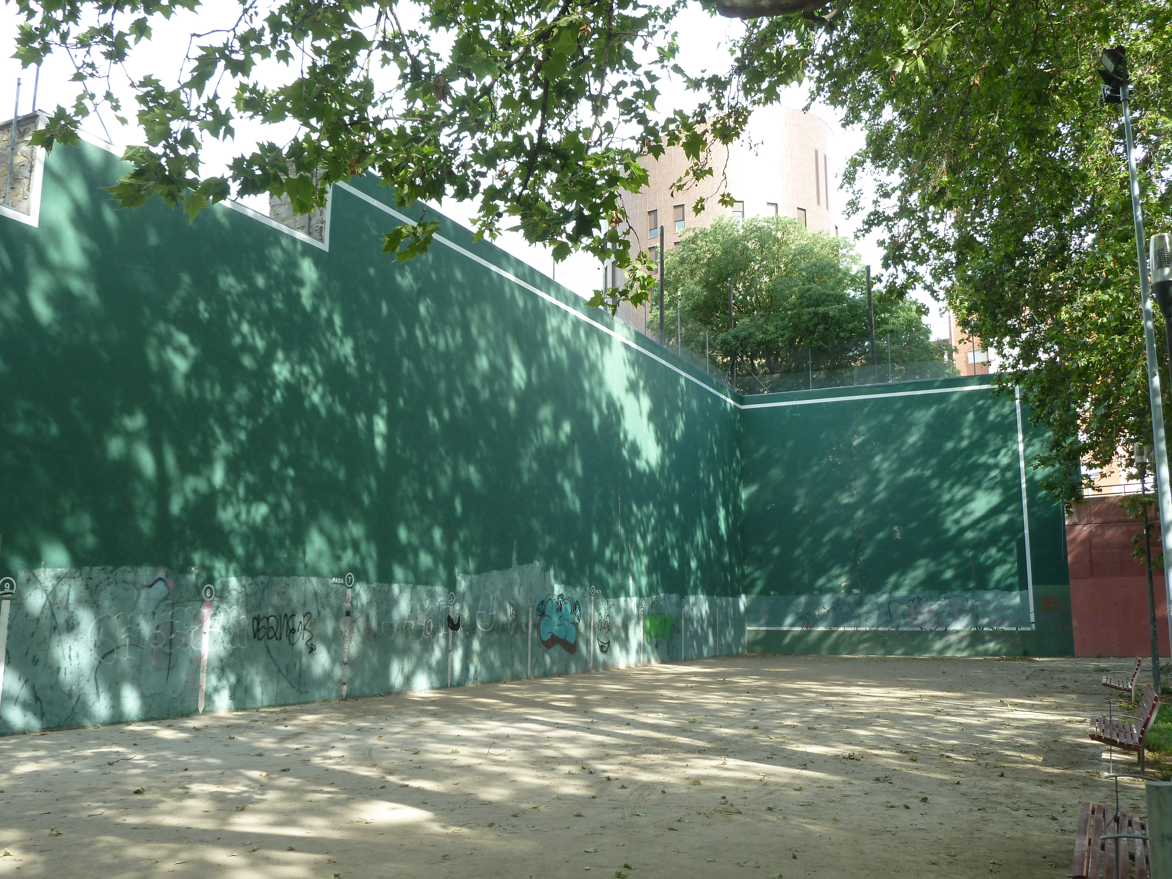 Popularly known as Txiki pelota court -in the past was part of the residential complex by businessman Carlos Eugui "Txiki" -. It is an open pelota court, no lighting, no bleachers and locker rooms and is located on Avenida de San Jorge. Intended for practicing pelota, it can be used freely by any citizen who wishes.